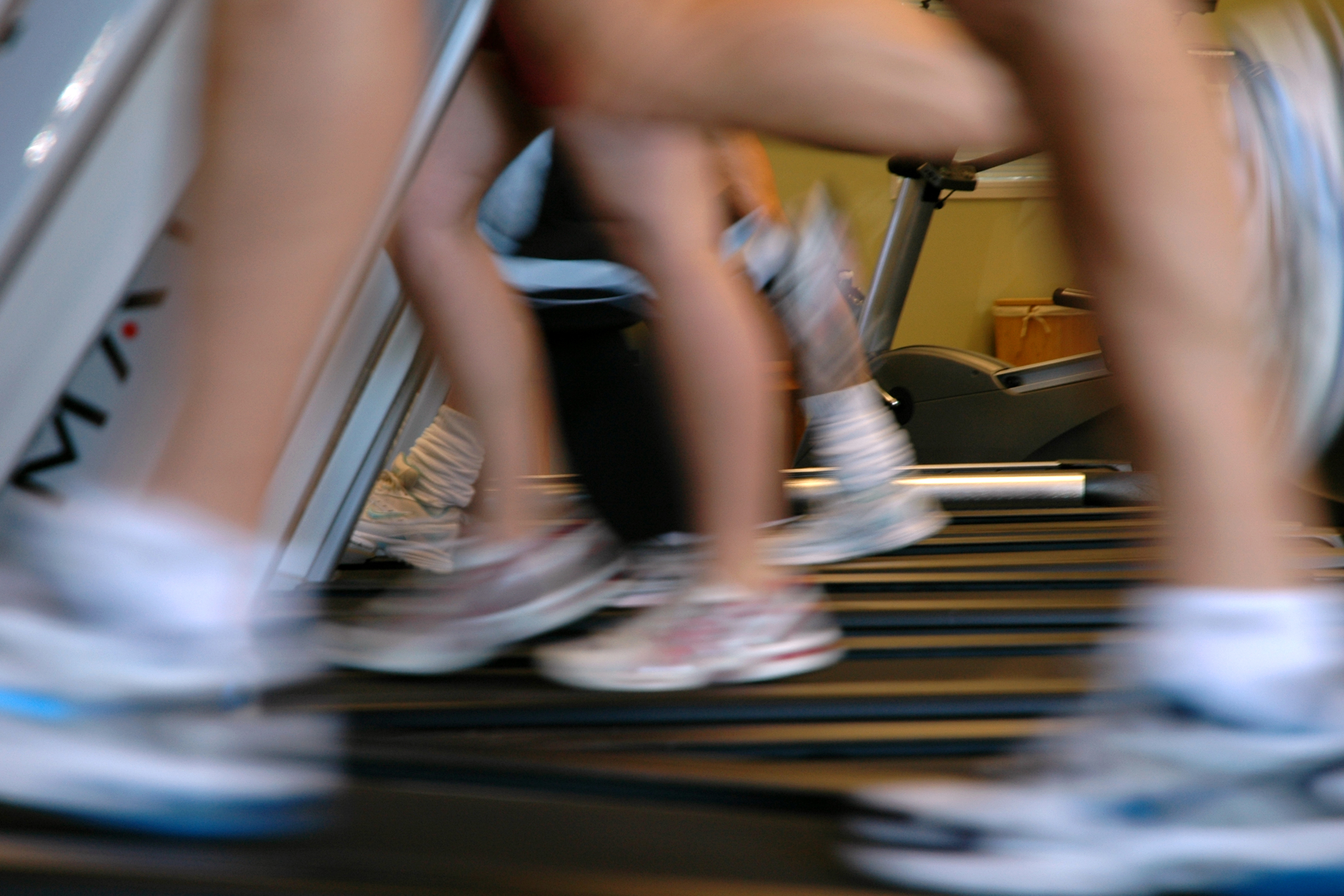 Lower legs of several people running on treadmills with moderate motion blur.